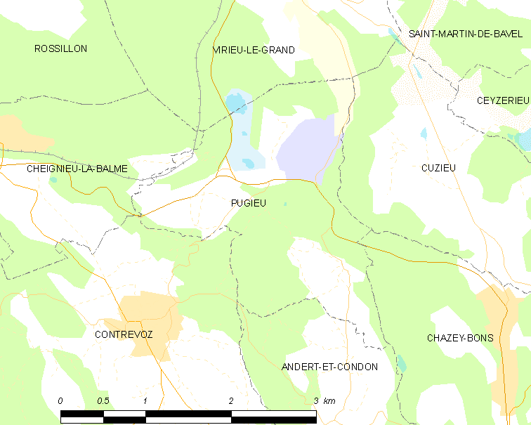 Map of French commune: Pugieu Map commune FR insee code 01316.png